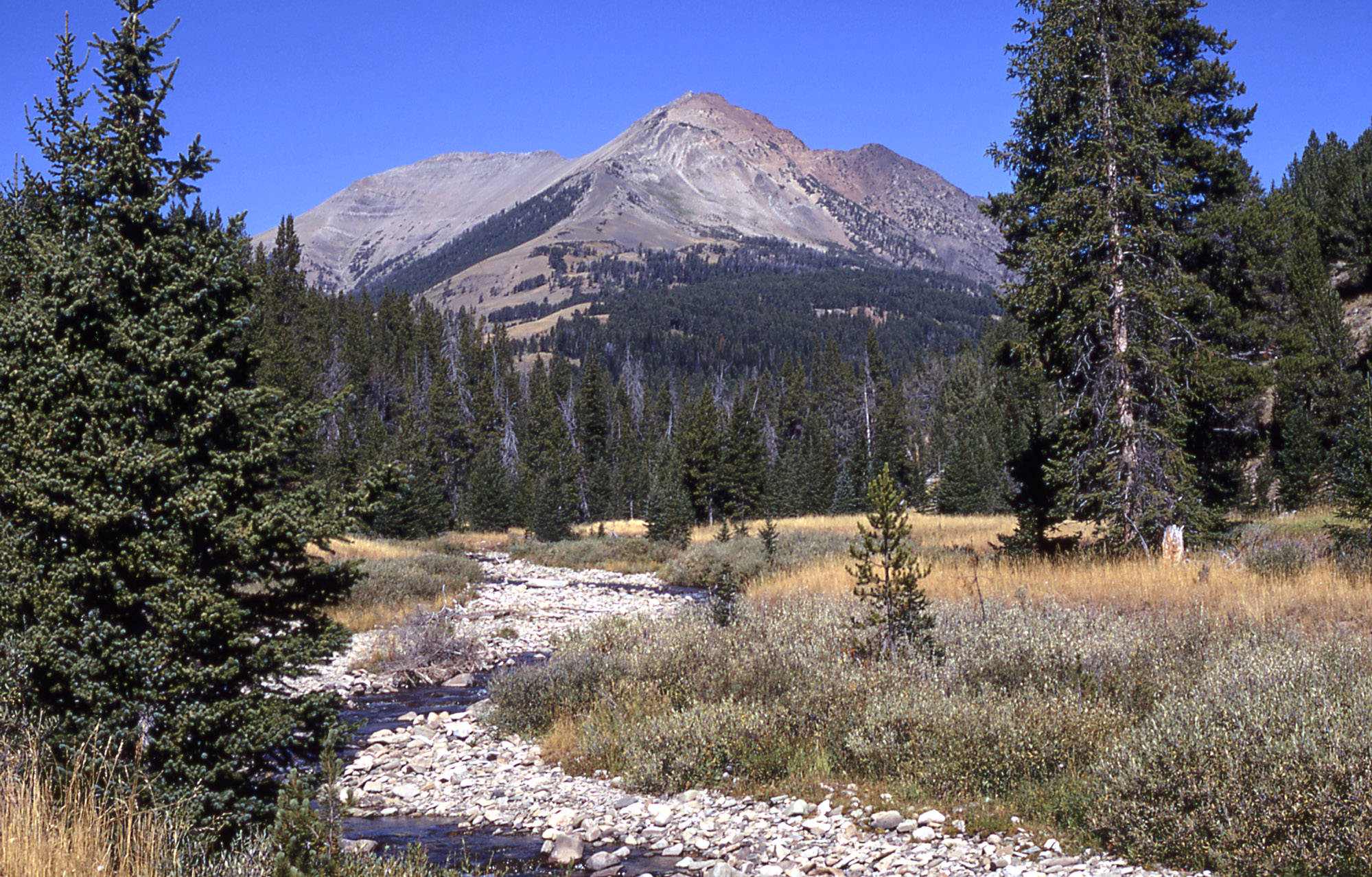 Electric Peak, Gallatin Mountains, Montana and surrounding forest.